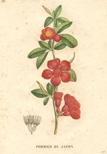 Rosaceae - Pyrus japonica - Malus japonica From: La flore et la pomone françaises, ou histoire et figures en couleur, des fleurs et des fruits de France ou naturalisés sur le sol français